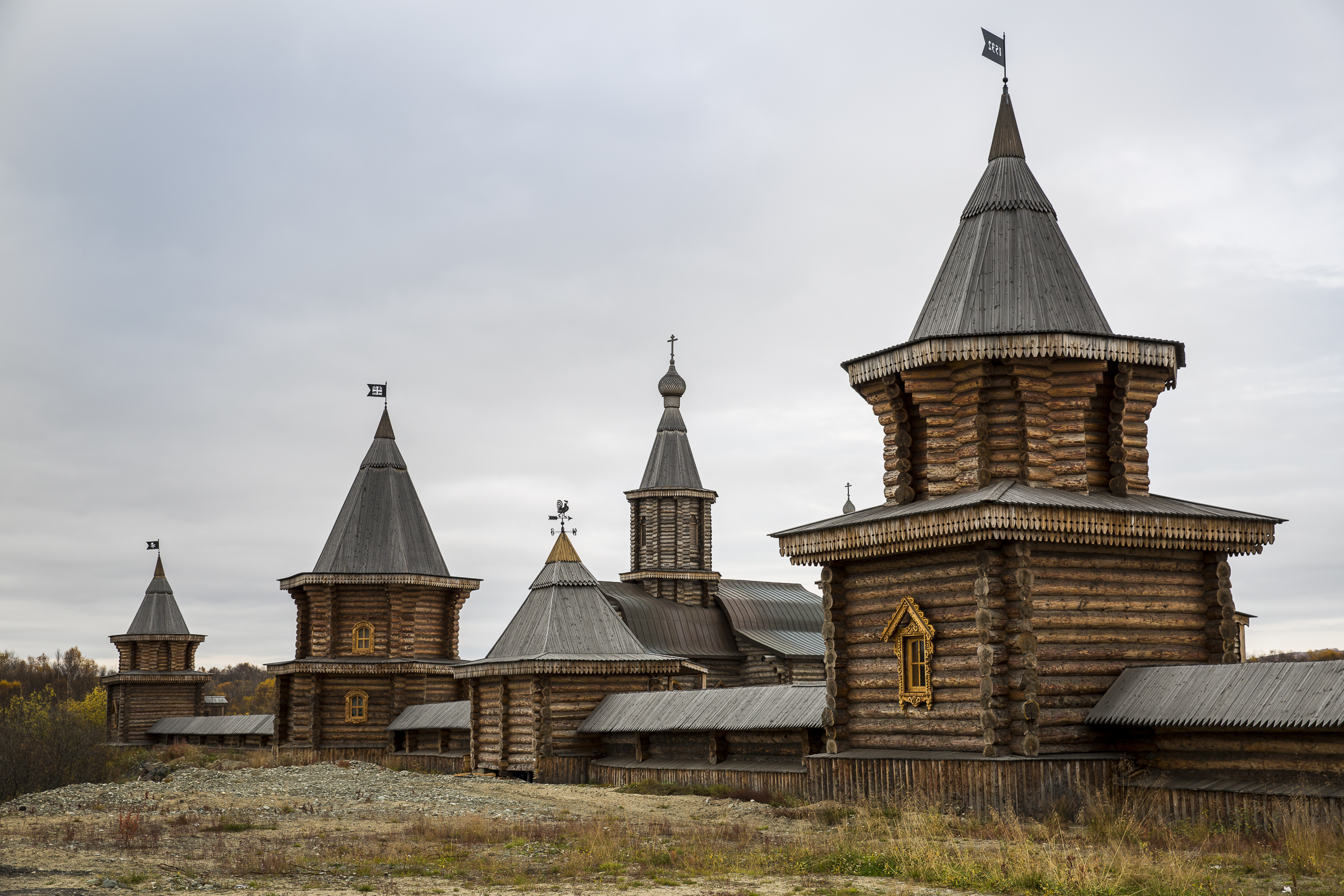 Pechenga Monastery, Pechenga, Kola Peninsula, Russia